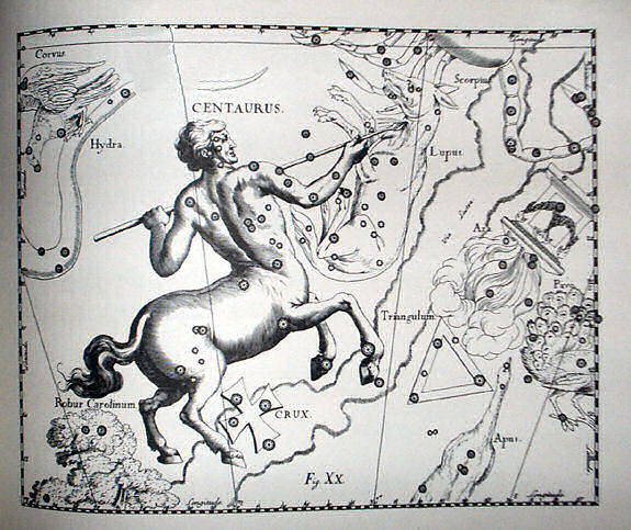 Johannes Hevelius, Prodromus Astronomia, volume III: Firmamentum Sobiescianum, sive Uranographia, table XX: Centaurus and Crux, 1690.